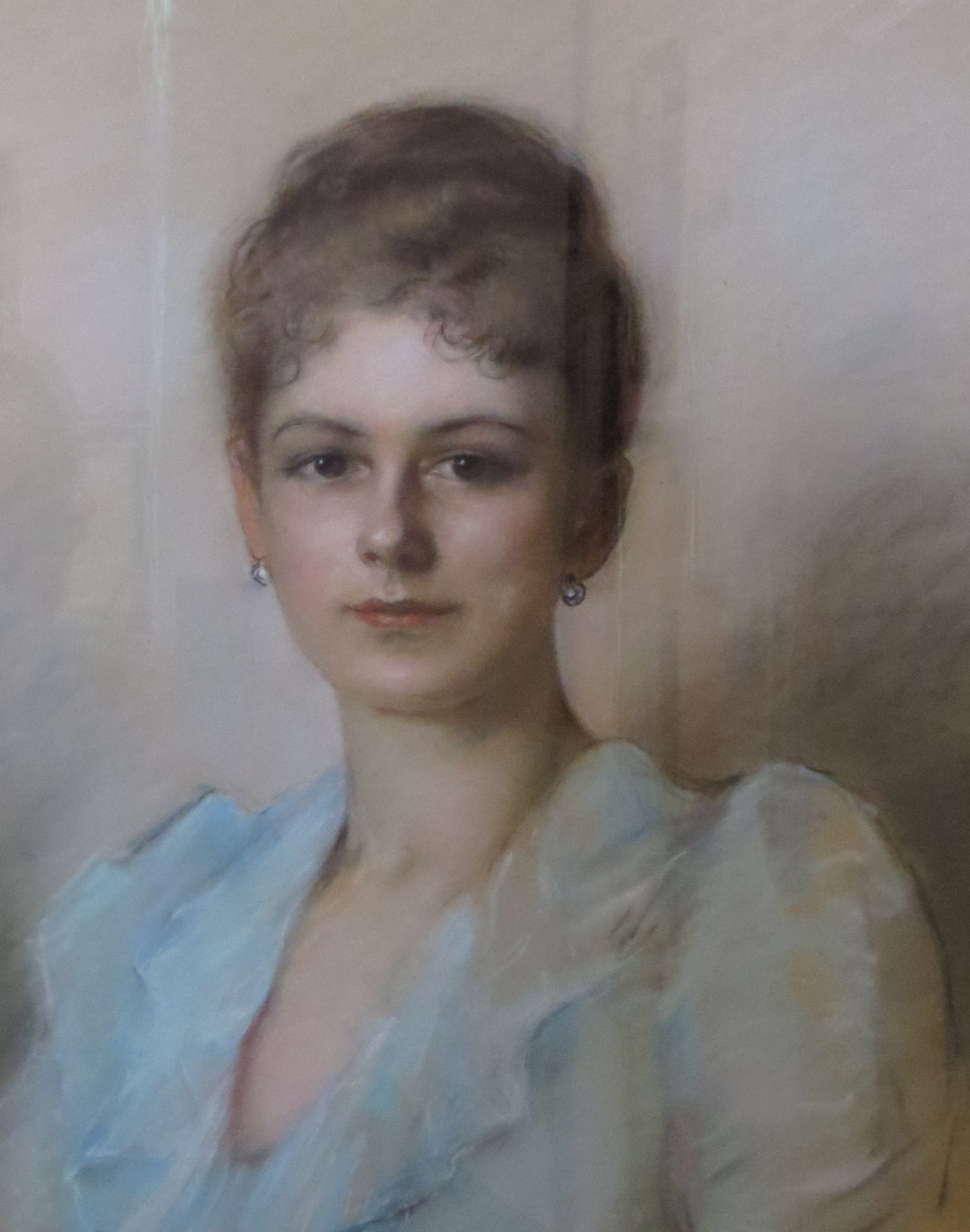 Sophie, Duchess of Hohenberg (1868–1914) pastel painting (pre-1910) Original publication: Painting of Sophie, pre-1910, hanging in a museum in Artstetten Castle Immediate source: I took a photograph of a painting hanging in the Artstetten Castle Museum